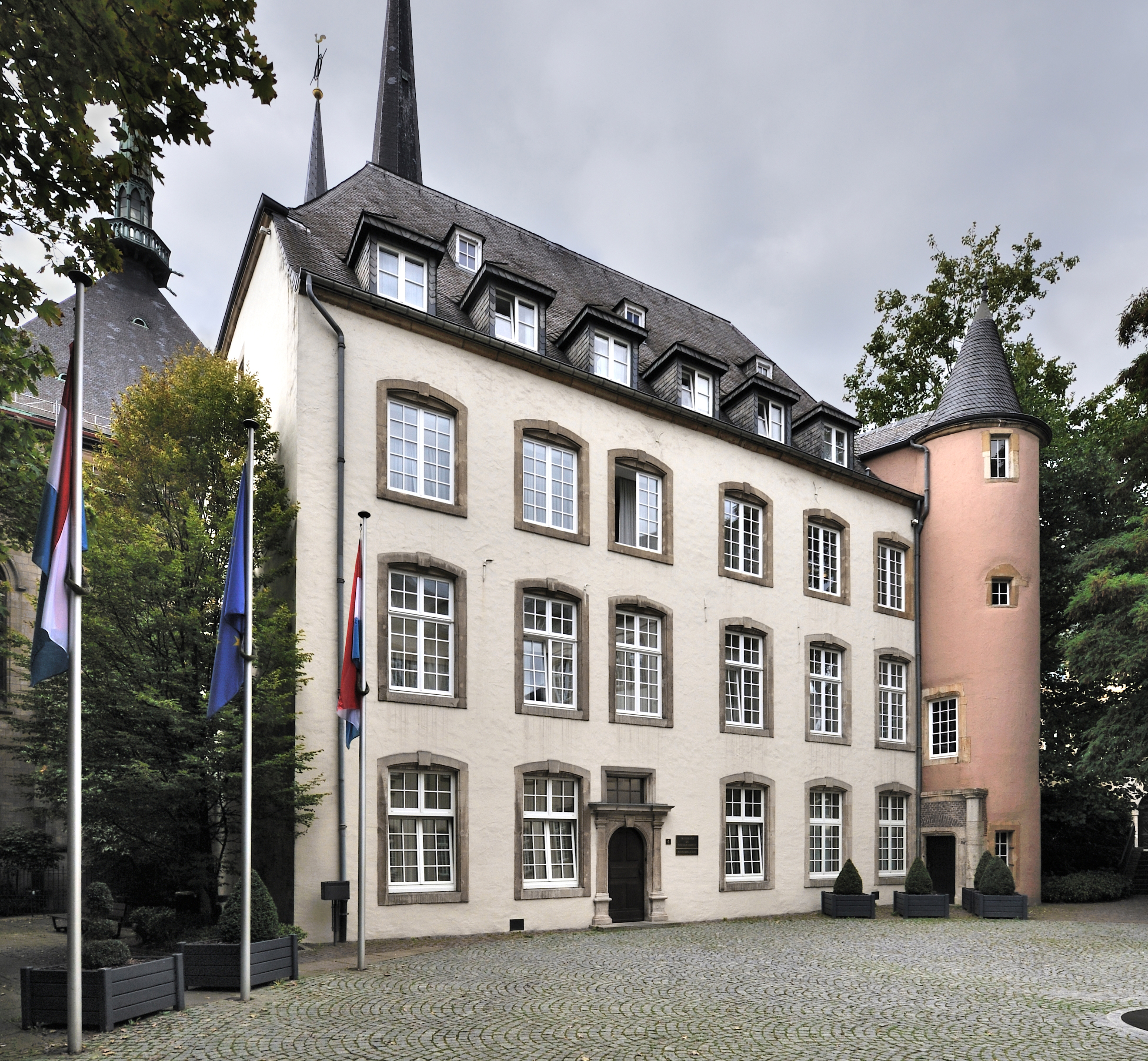 Luxembourg City: Hôtel de Bourgogne, seat of government of the Grand-Duchy of Luxembourg. The buildings hosts the office of the Prime Minister.